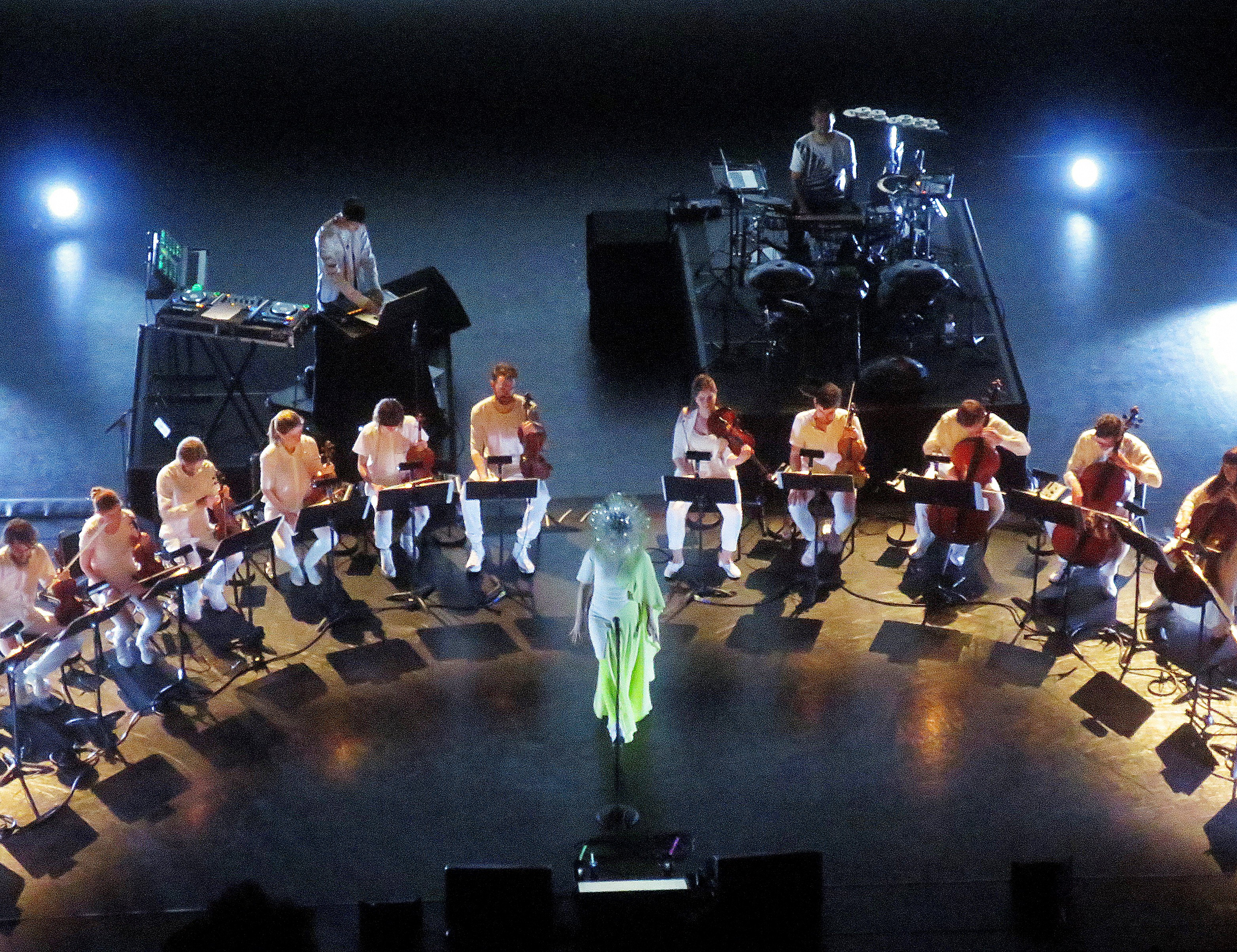 Björk @ New York City Center, New York, 04/01/2015